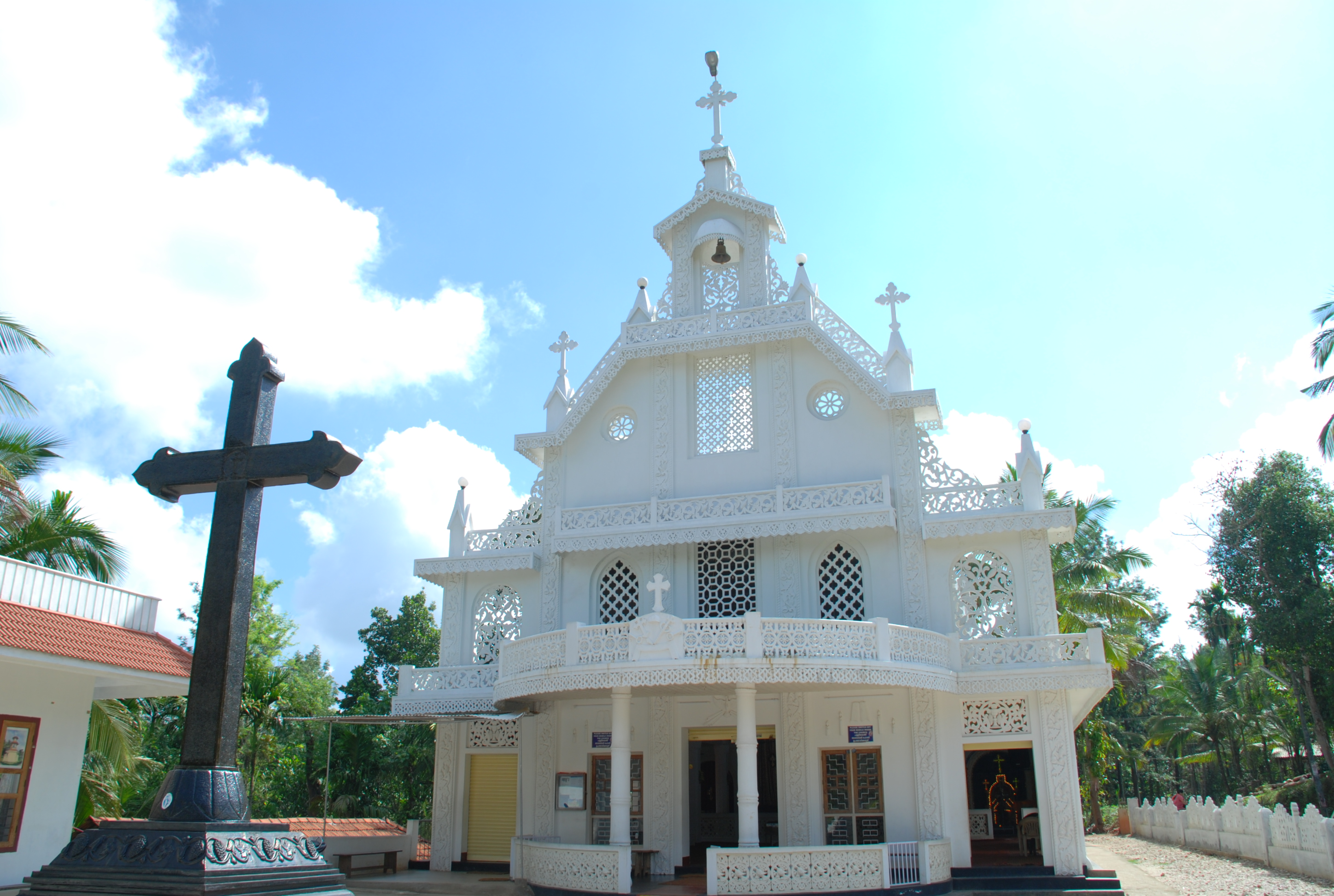 Morth Mariyam Jacobite Syrian Orthodox Church, Cheengeri, Meenangadi, Malabar Diocese.